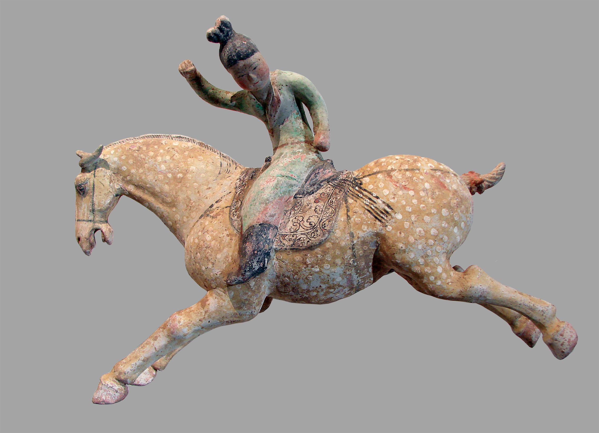 Young women, polo players. First half of the 8th century. Terracotta, engobe and polychromy. Tang Dynasty. Musée Guimet. MA 6116 à 6121.